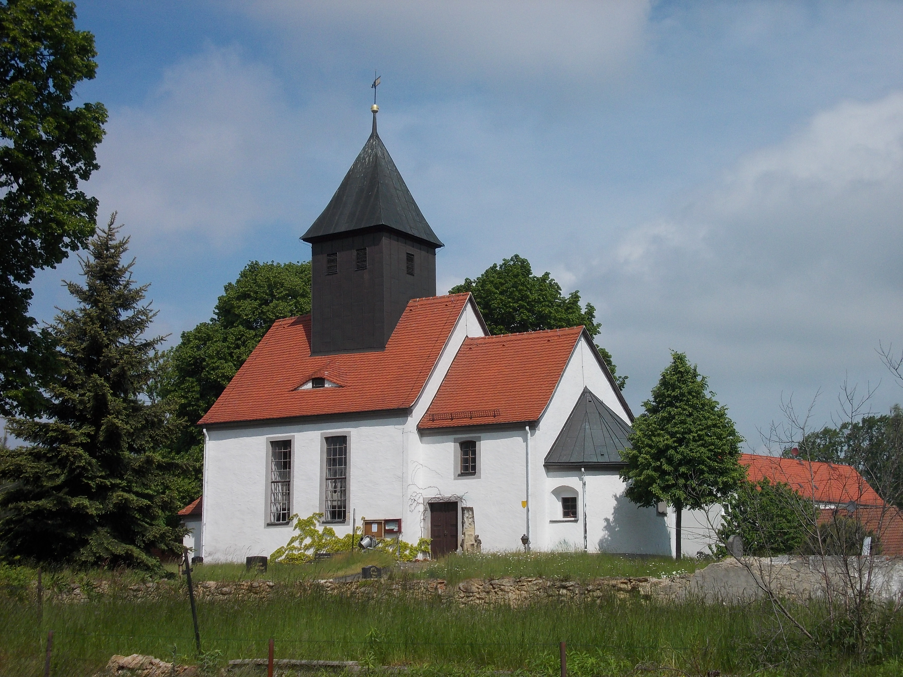 Lonnewitz church (Oschatz, Nordsachsen district, Saxony)